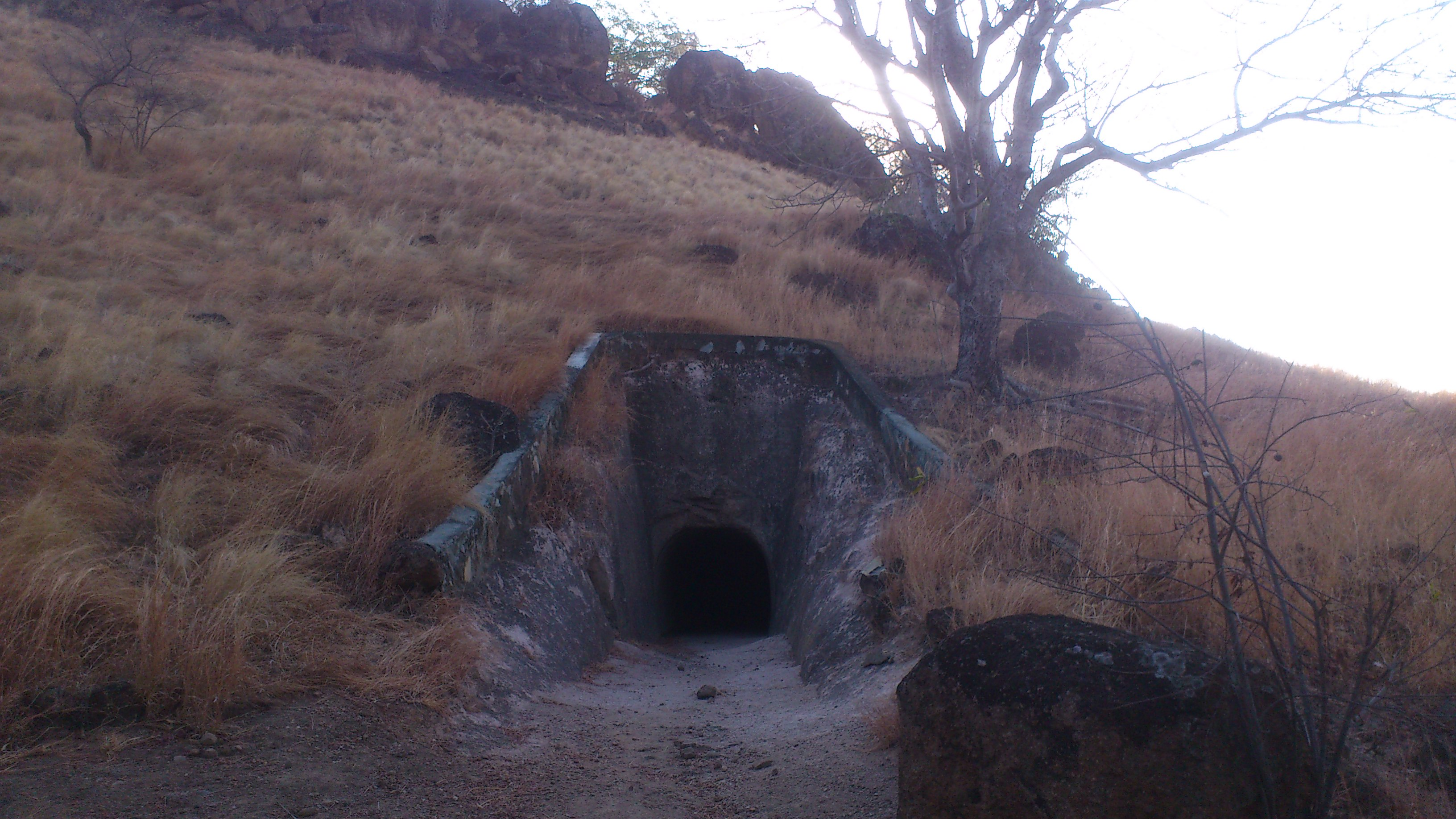 Rane Bunker is one of the Japanese Bunker used in World War II